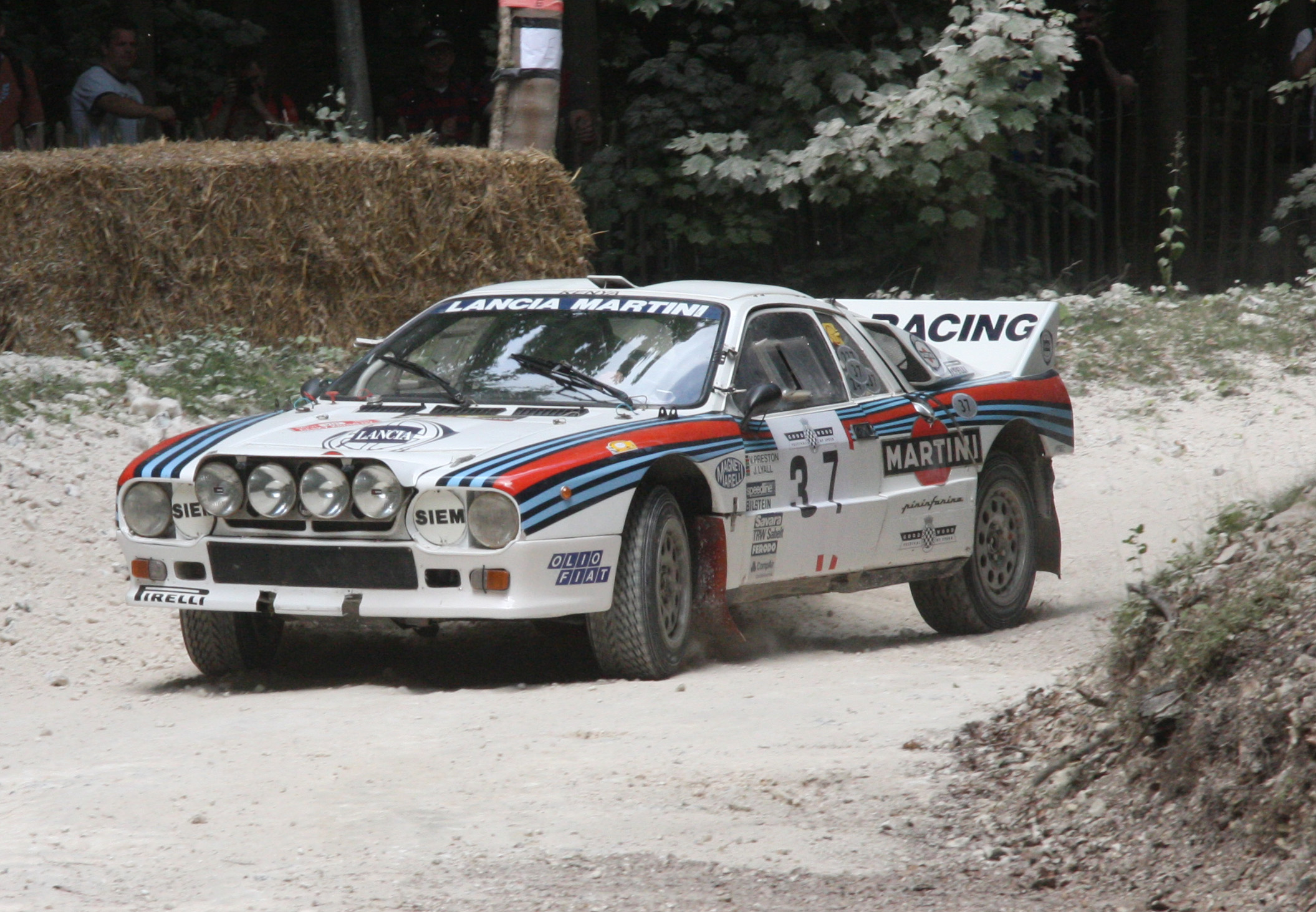 Lancia Rally 037